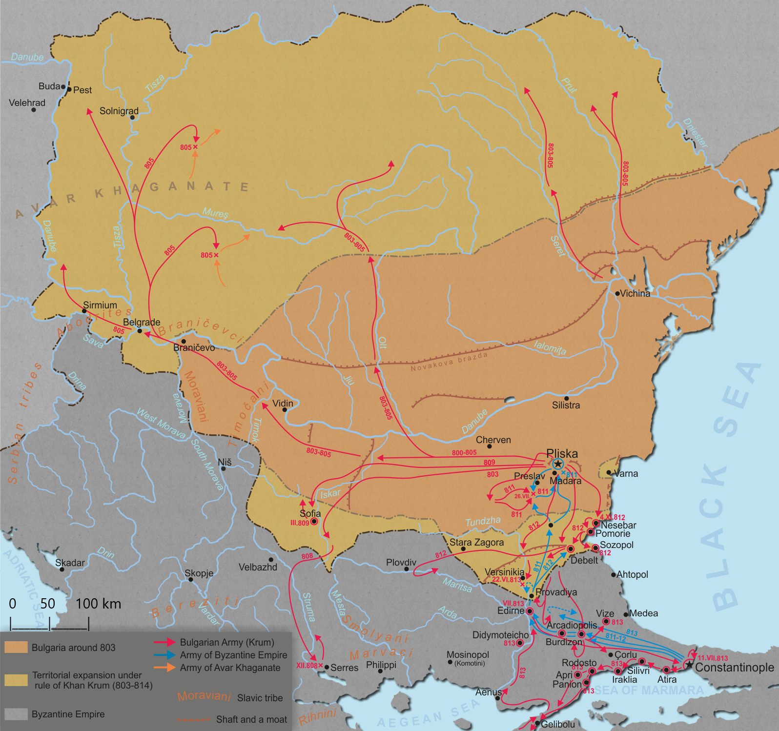 Territorial expansion of Bulgaria during the reign of Khan Krum (803-814) ( with scale )